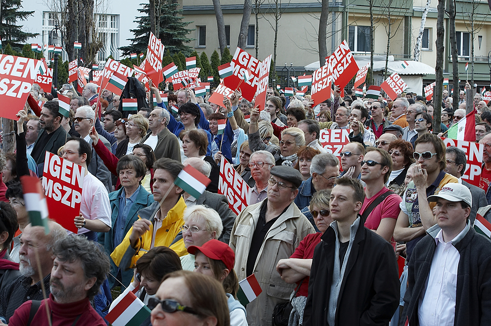 MSZP party event at parliament election of 2006. Table with "IGEN MSZP" means "YES MSZP".